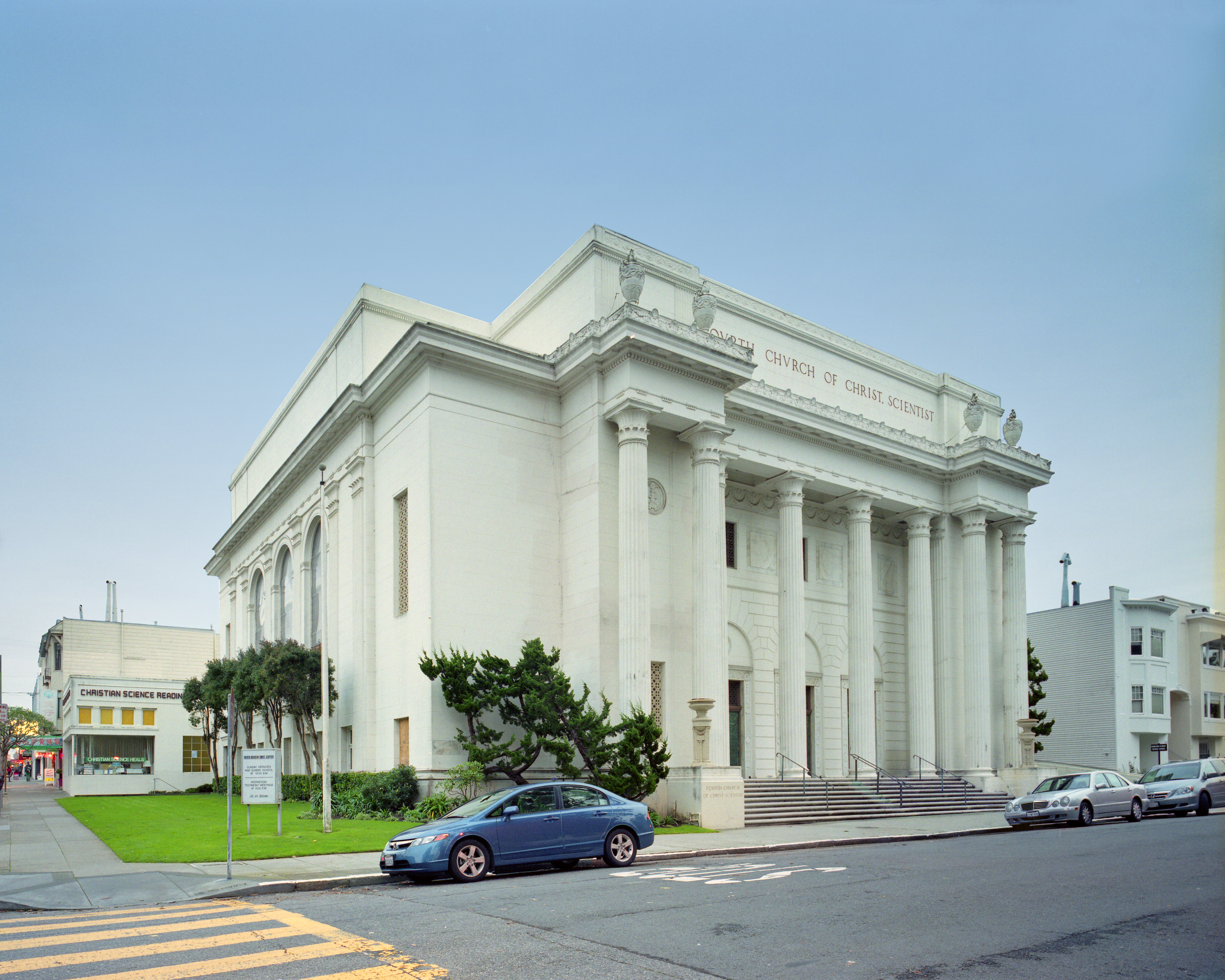 Headquarters of Internet Archive, located in the former Fourth Church of Christ, Scientist, a neoclassic building with Greek columns on Funston Avenue, in Richmond District, San Francisco, California